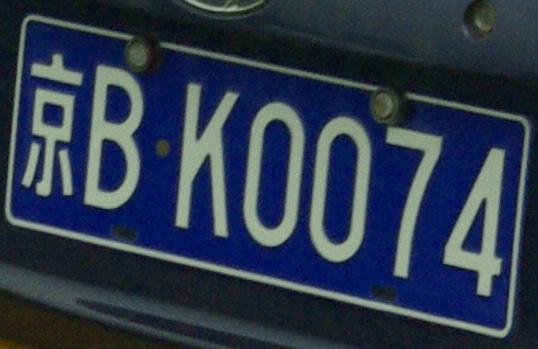 京B K0074 Hyundai Elantra, found in Beijing, China (Image:Hyundai Elantra ZH taxi.jpg)